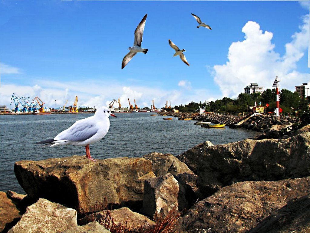 Bandar-e Anzali coast in summer.